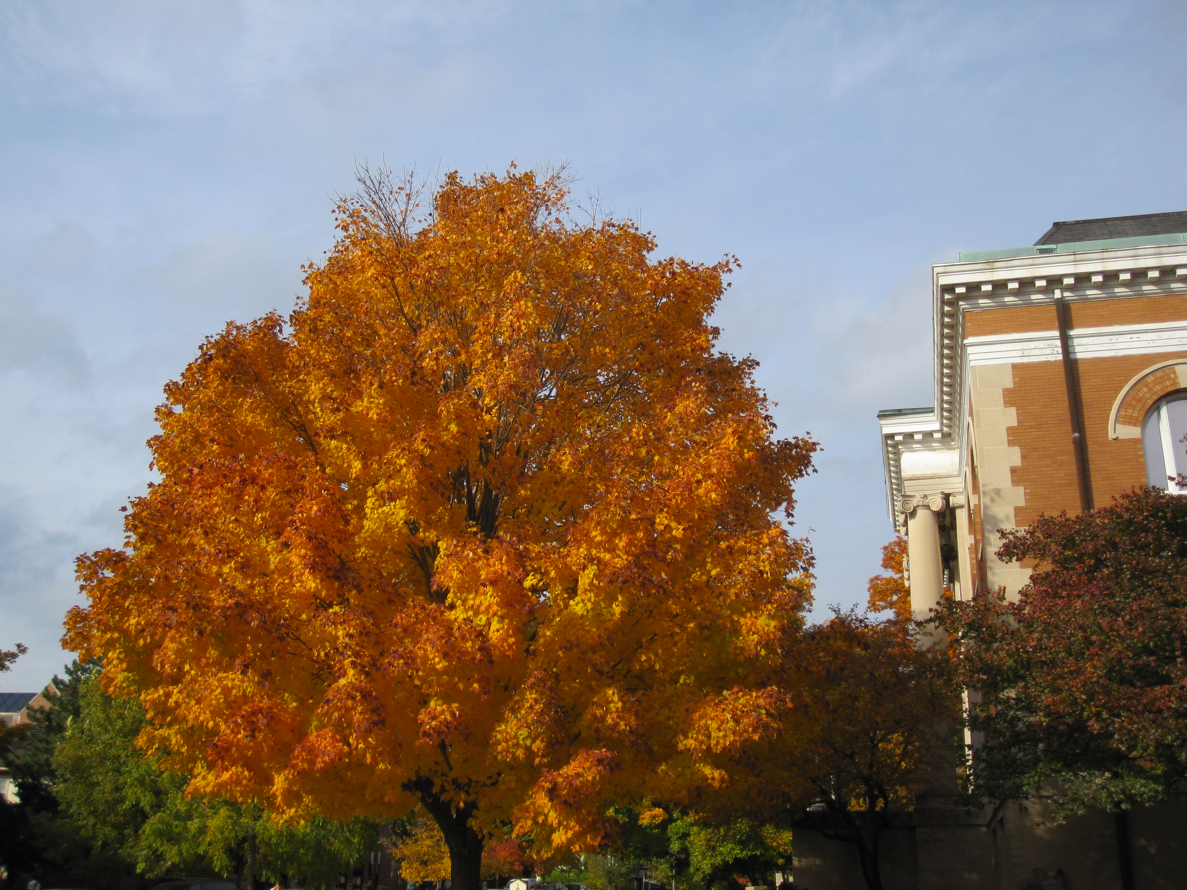 North Central College: A photo of Carnegie Hall (former Cargenie Library) that I took